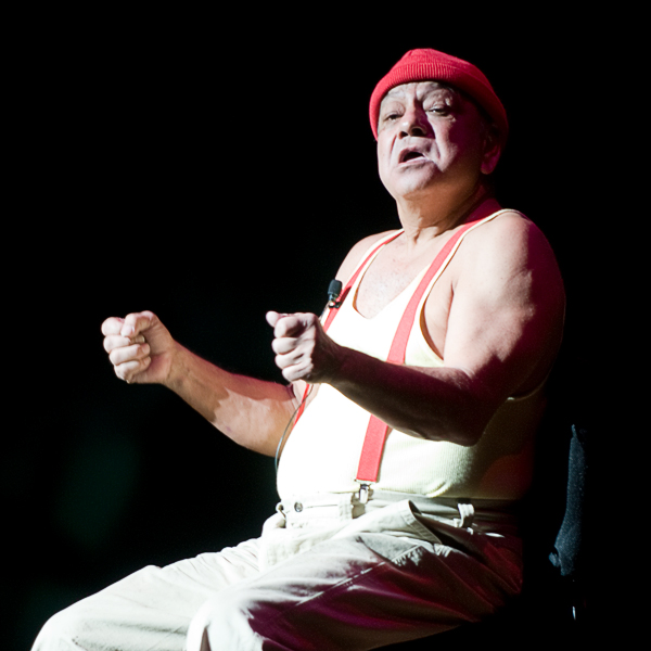 Cheech Marin in Vancouver during the 2008 Light up Canada tour.